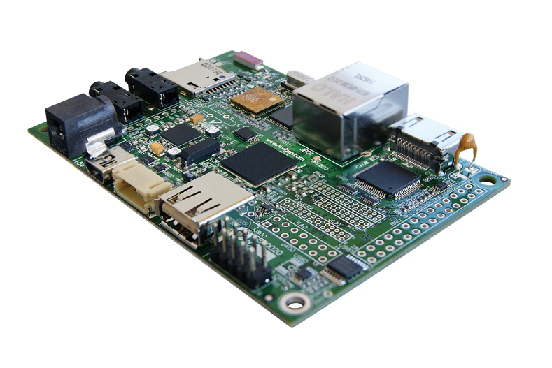 Promotional photo of the IGEPv2 single-board computer, by ISEE.